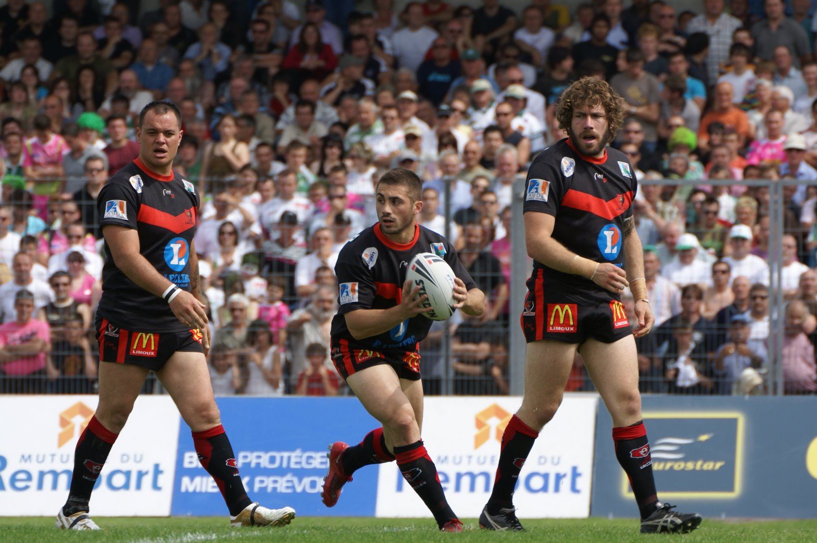 Limoux players in the finale of the French Championship of rugby league against Lezignan.